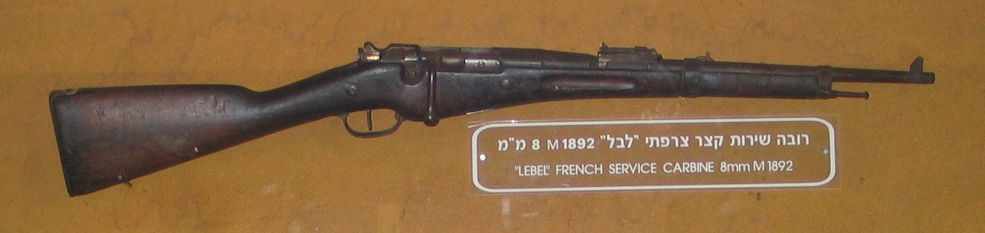 Berthier Mle 1892/27 carbine (Mosqueton d'Artillerie Mle. 1927) in kibbutz Yad Mordechai Museum, Israel.